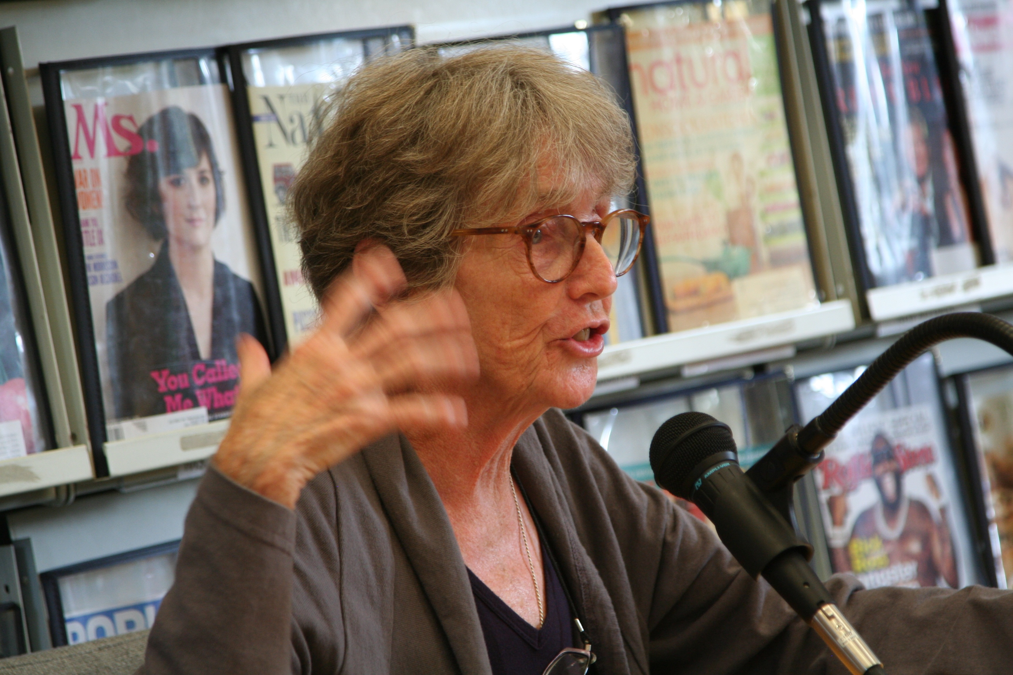 Fanny Howe shares her poetry and living philosophy at a Martha's Vineyard gathering. This photo depicts an interlude between poems as Fanny talks about poetry and its meaning to her life's journey.